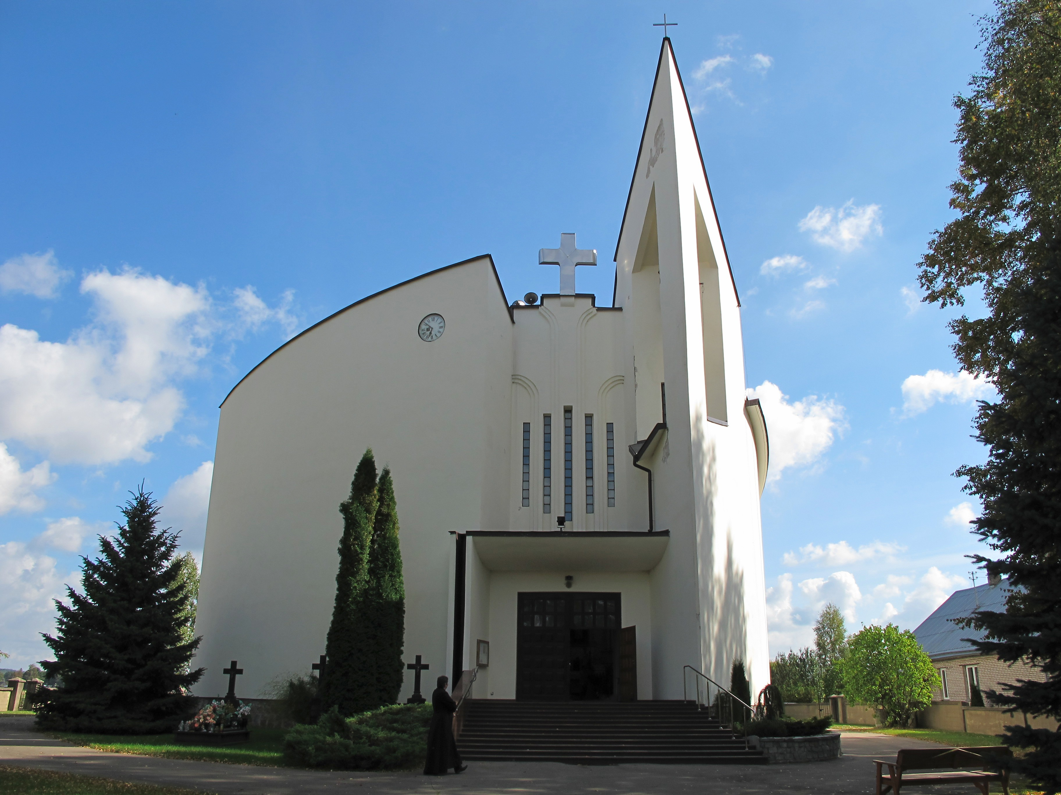 Immaculate Heart of Mary church in Bombla, gmina Korycin, podlaskie, Poland